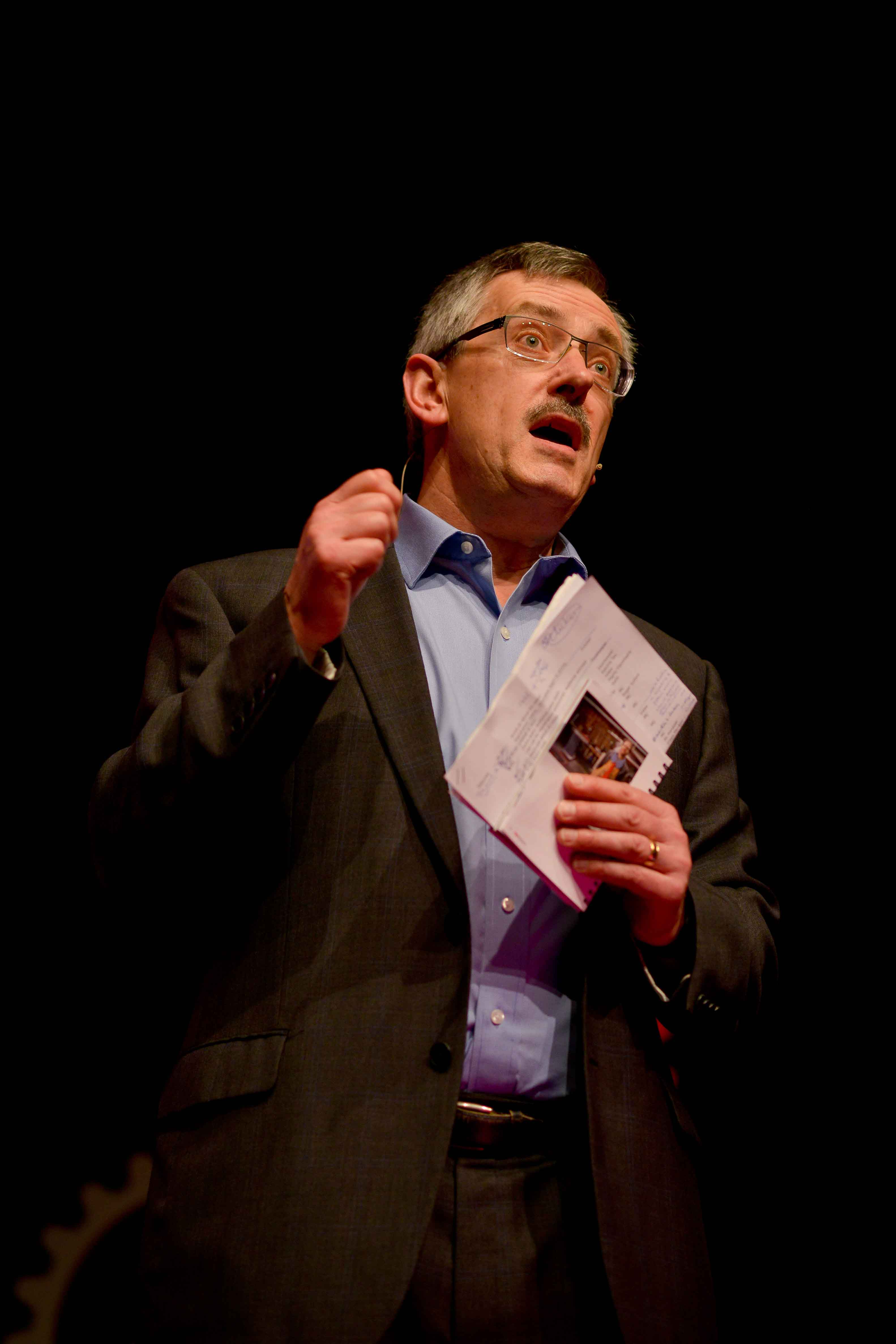 Rod Oram speaking at TEDxEQCHCH in 2012